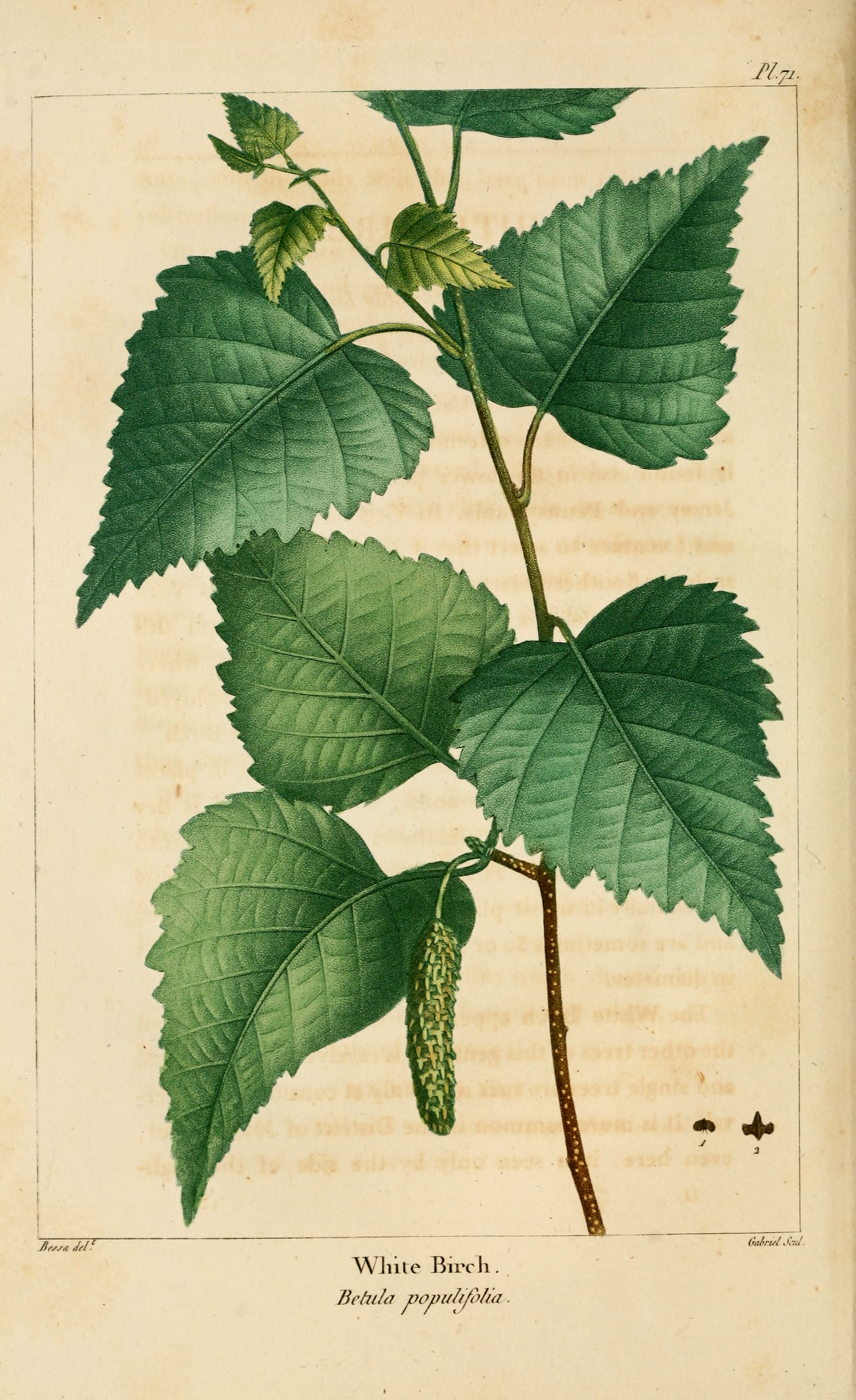 Plate 71 from The North American Sylva: Betula populifolia - gray birch.Original caption: White Birch. Betula populifolia.